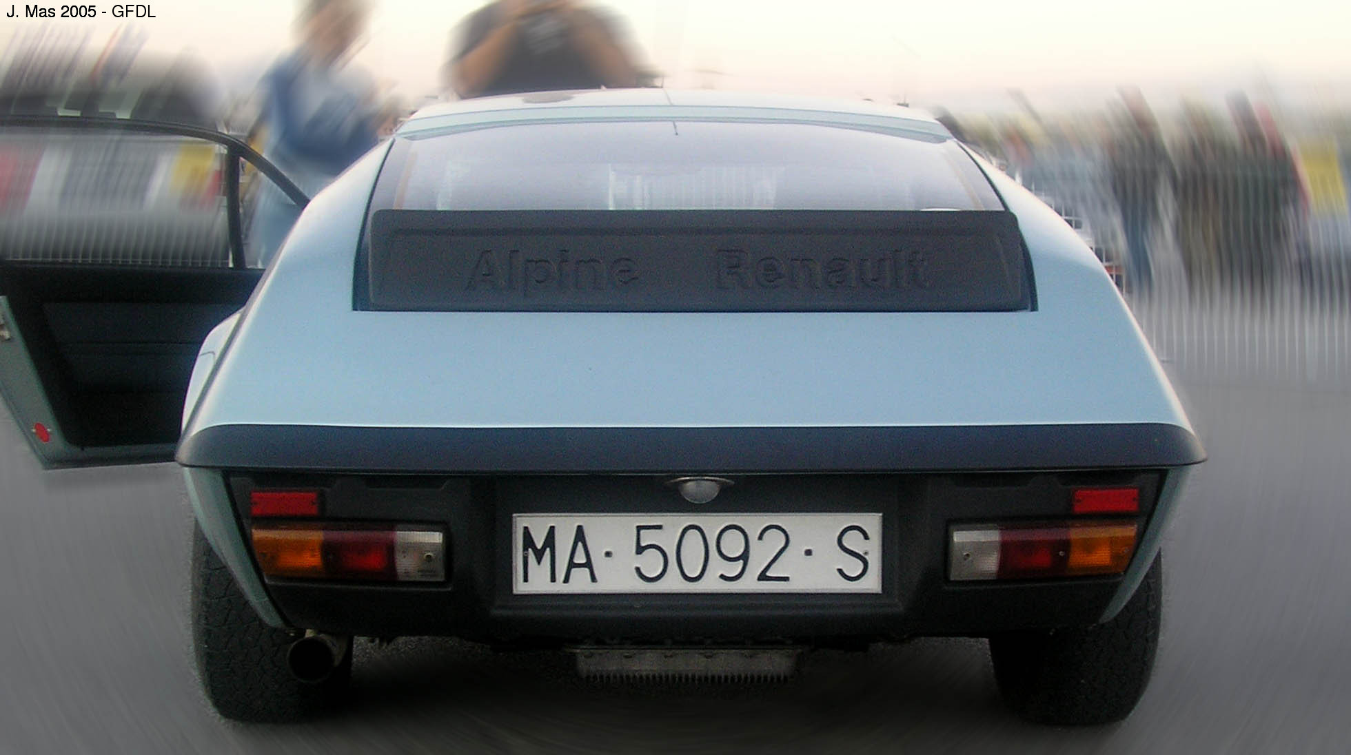 Description: Renault Alpine A310 Source: Own photo, 2005 Photographer: Picture taken by Usuario:Barahonasoria (spanish wikipedia)